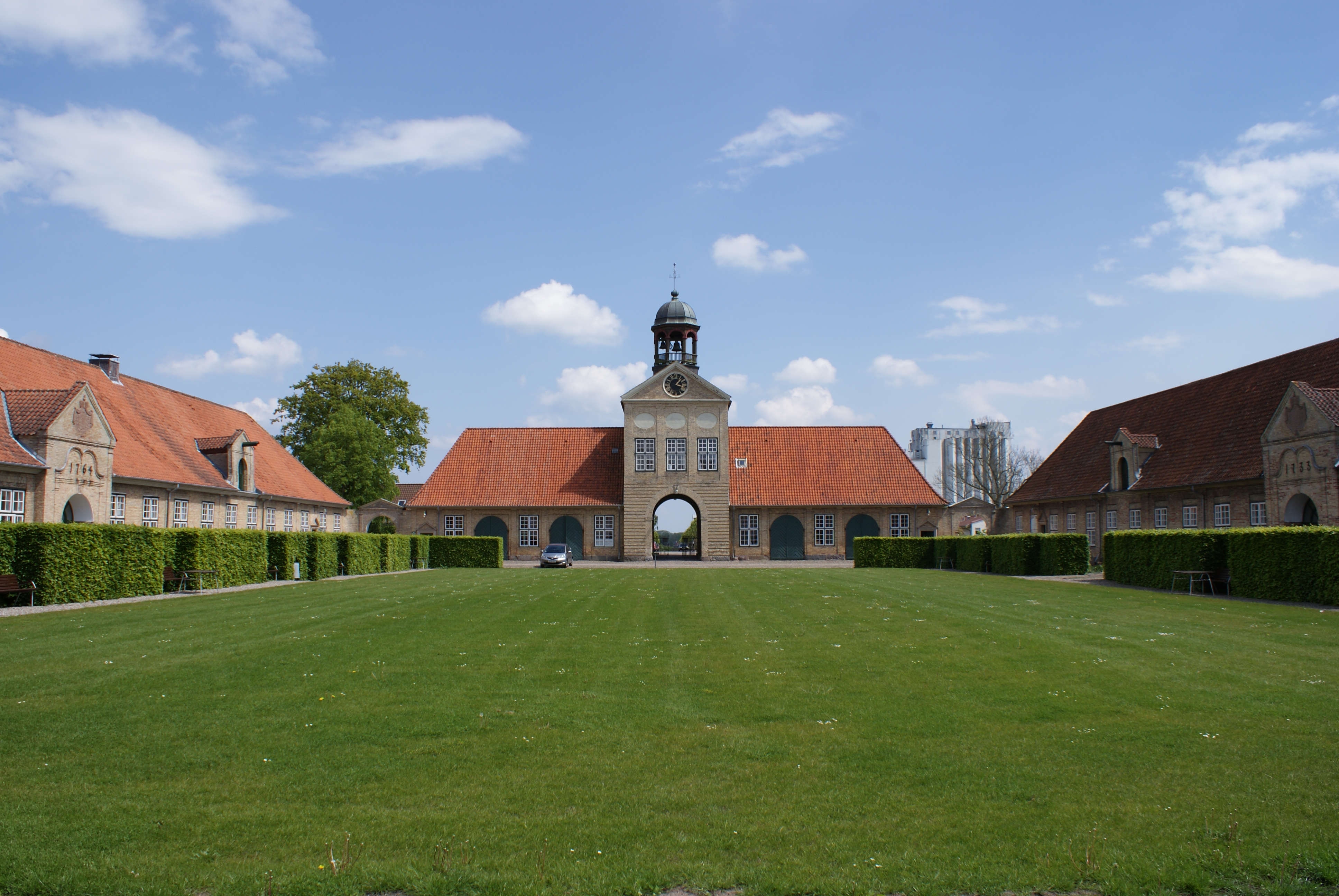 Description=Augustenborg Torhaus Source=myself Date=02.2007 Author=PodracerHH 17:17, 30 August 2007 (UTC)